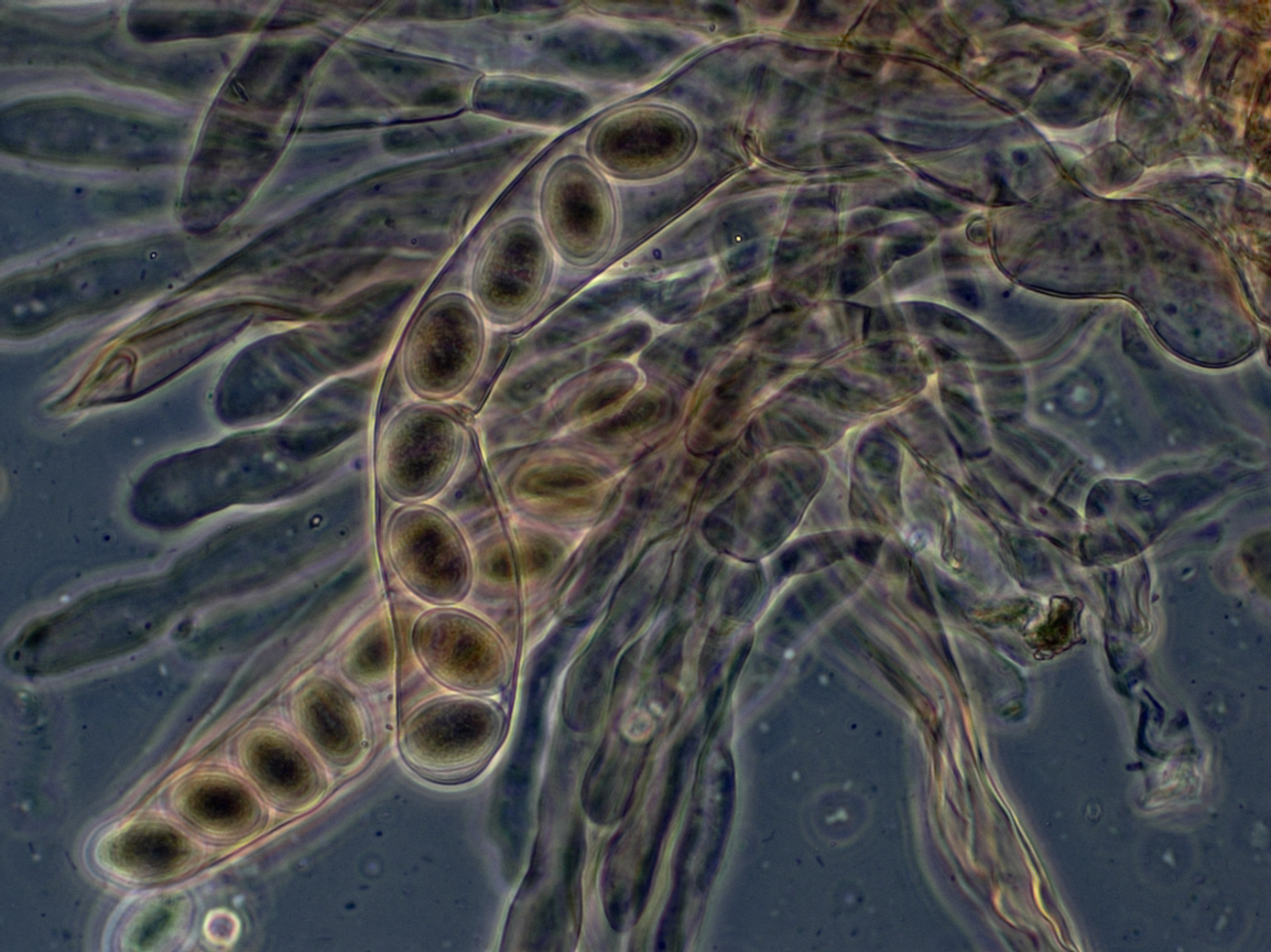 Asci and ascospores, Morchella elata (morel), 40x objective, phase contrast, Zeiss Axio Imager.A1 microscope, Zeiss AxioCam MRc CCD image, Merritt College, Oakland, CA